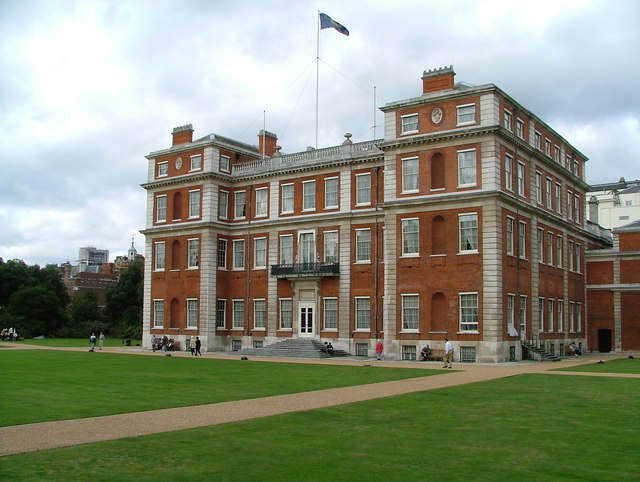 Marlborough House London Commonwealth Office